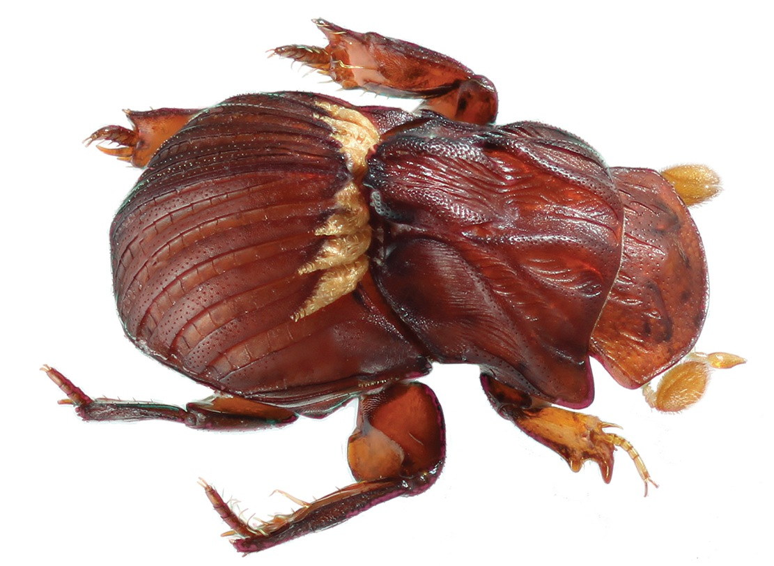 Termitotrox cupido holotype, antero-lateral view.